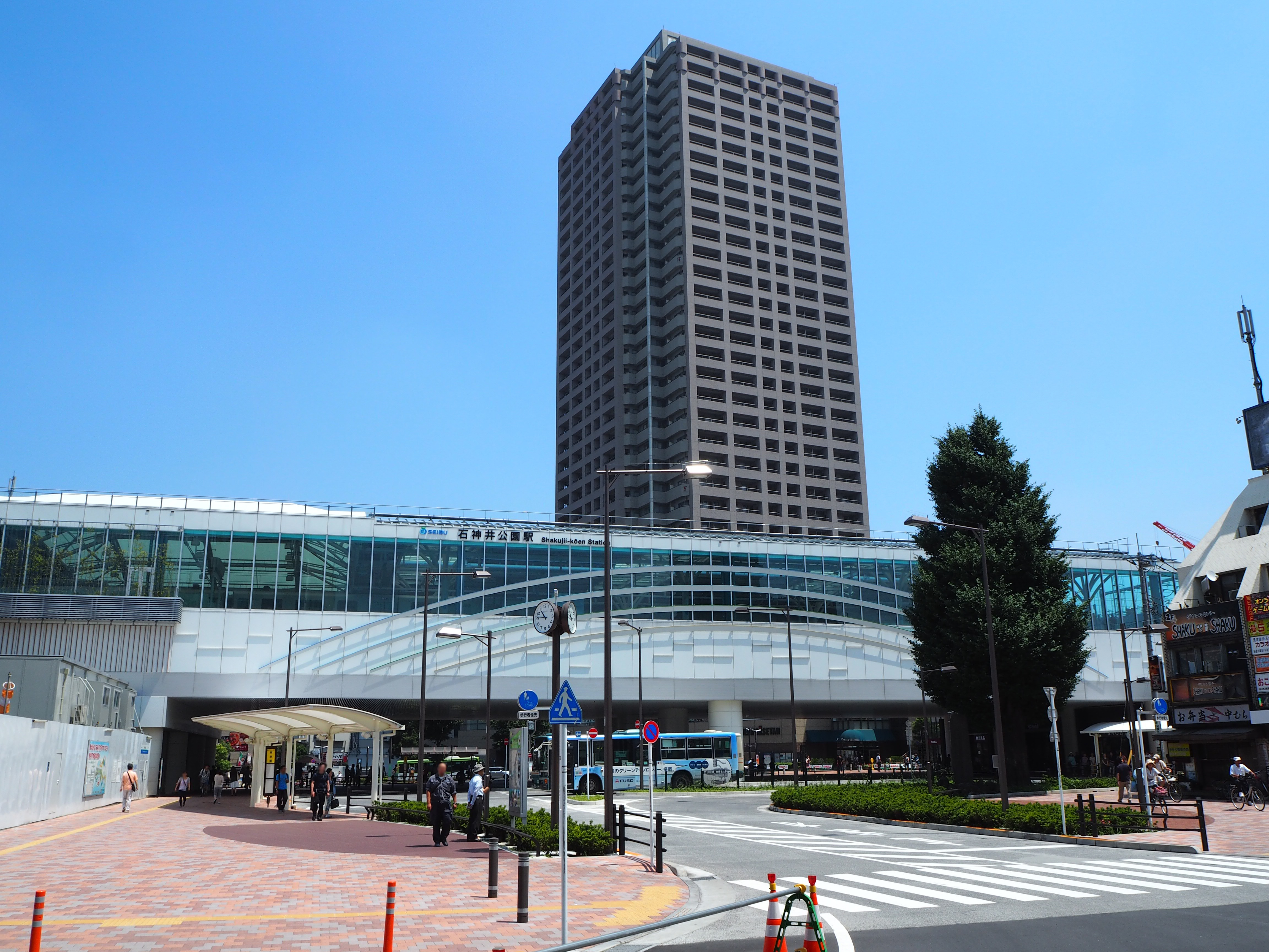 South Entrance of Shakujii-kōen Station